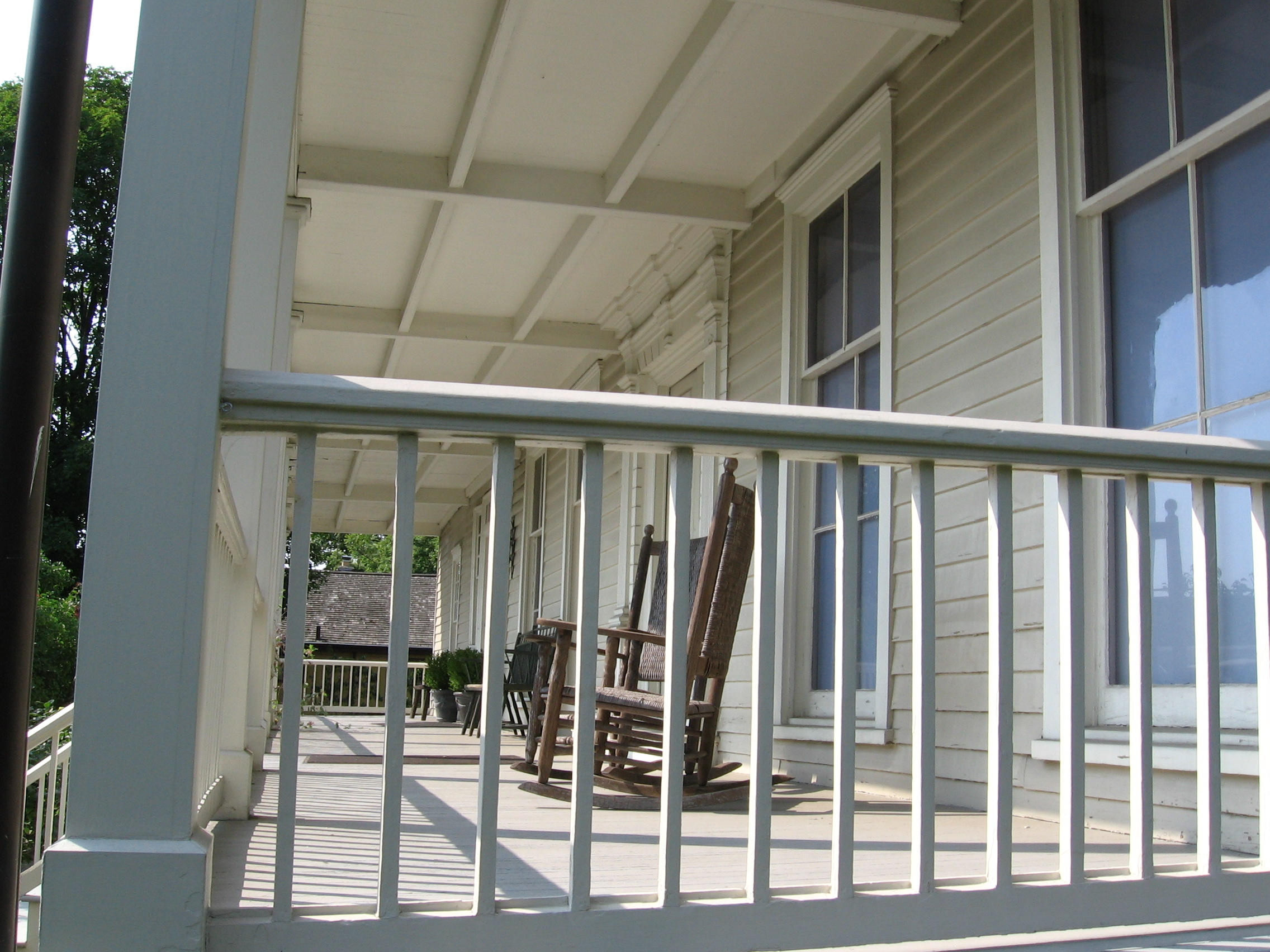 Front porch of the Bush-Holley House and museum, run by the Greenwich Historical Society in the Cos Cob section of Greenwich, Connecticut, as seen from the northeast corner